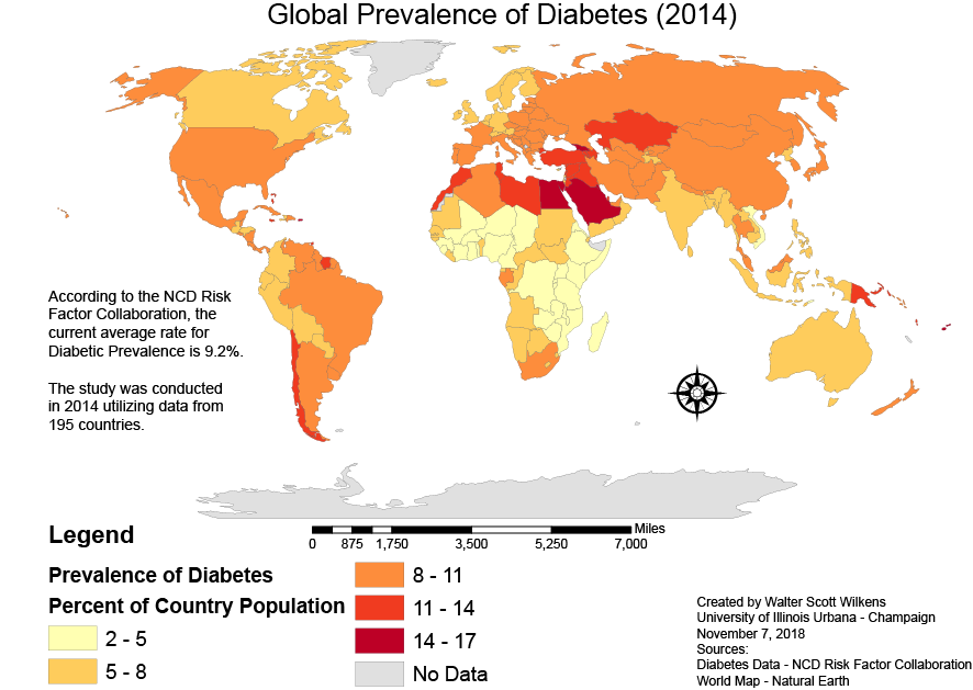 This map represents the worldwide prevalence of diabetes as a percent of each countries' population. The average global rate for diabetes is currently 9.2% or 92 out of every 1000 people.